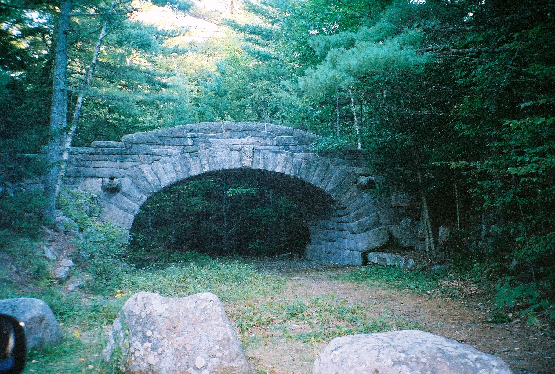 Stone bridge on carriage path in Acadia National Park.